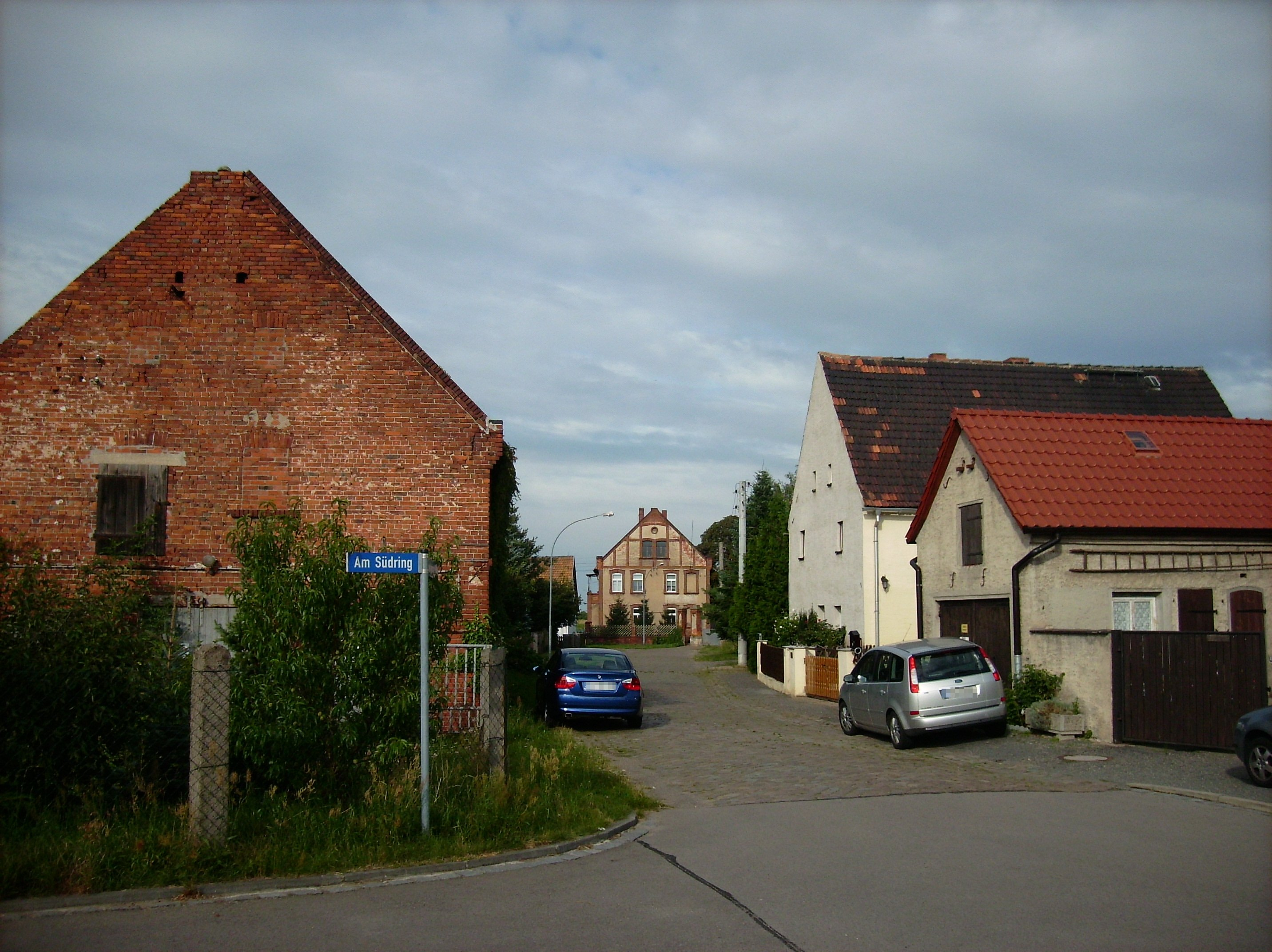 The hamlet of Kaucklitz (Arzberg, Nordsachsen district, Saxony)